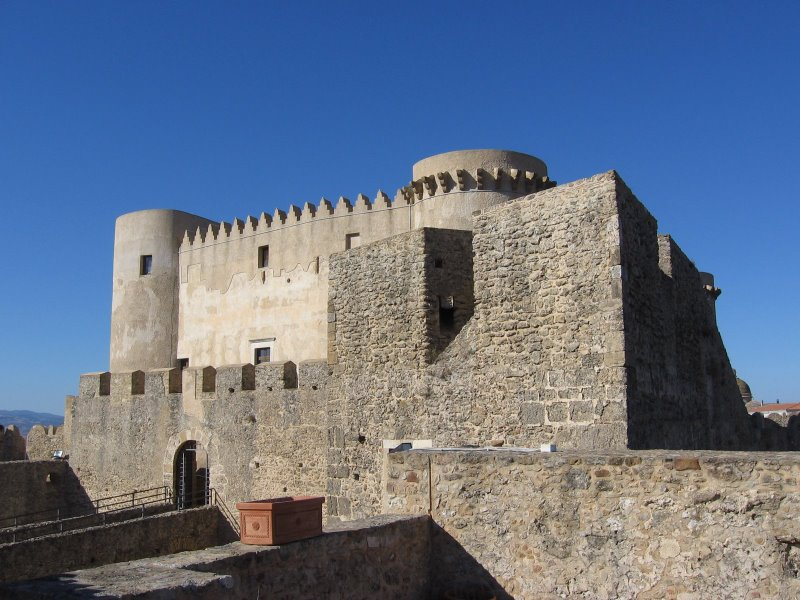 Norman castle of Santa Severina.